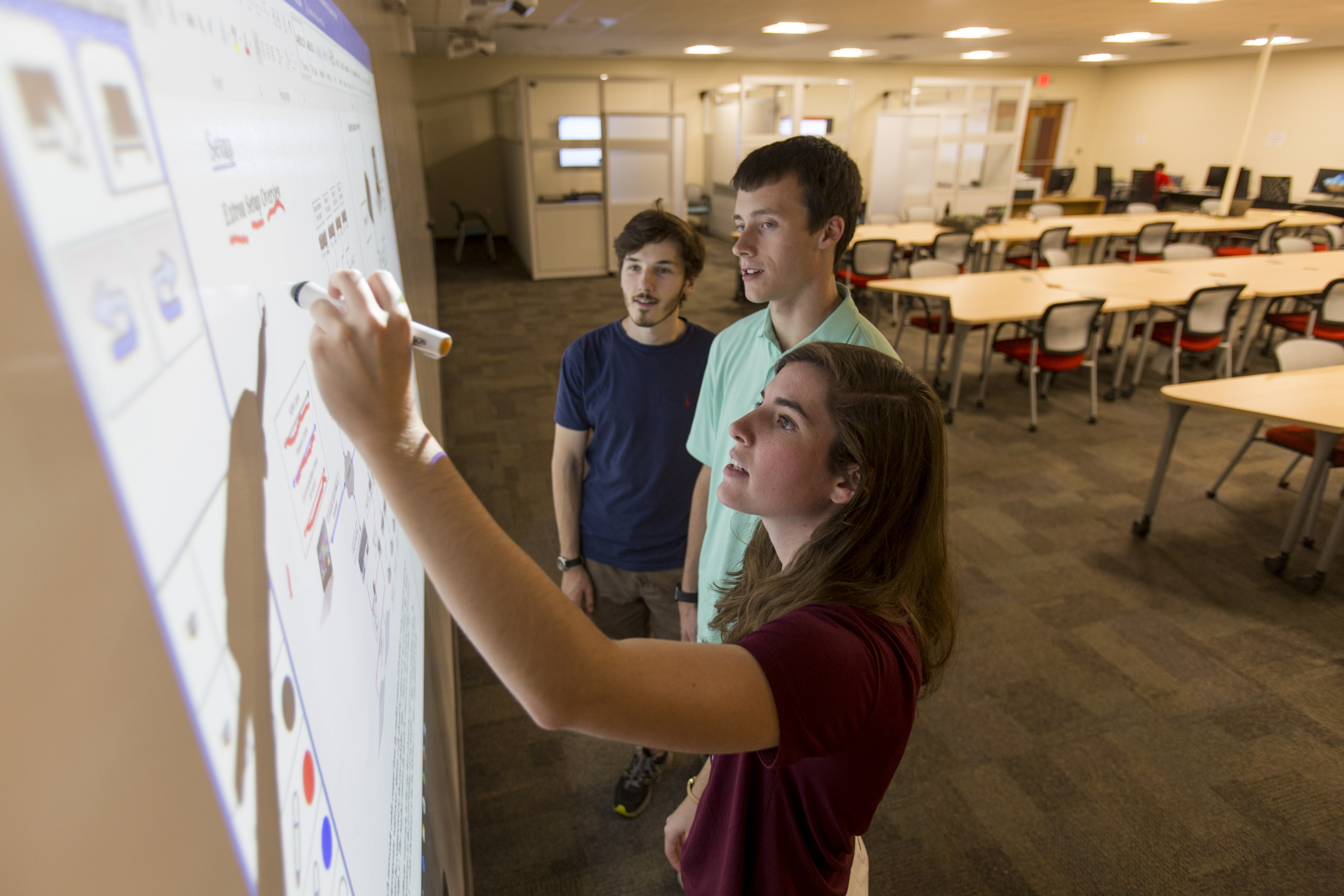 The Collaborative Design and Integration Studio (CDIS) features flexible work areas, a bank of 3-D printers, a 3-D plotter, a 3-D scanner and computers loaded with high-end graphics and design software. CDIS provides a place for students to work in teams on complex projects.